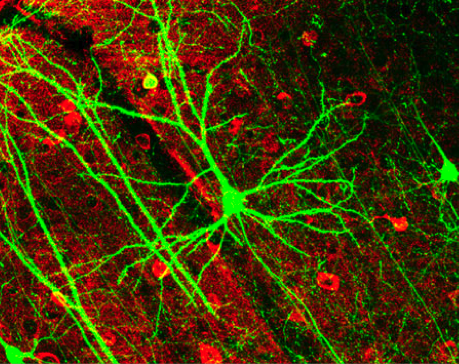 GFP expressing pyramydal cell in mouse cortex. Dynamic Remodeling of Dendritic Arbors in GABAergic Interneurons of Adult Visual Cortex Wei-Chung Allen Lee, Hayden Huang, Guoping Feng, Joshua R. Sanes, Emery N. Brown, Peter T. So, Elly Nedivi PLoS Biology Vol. 4, No. 2, e29